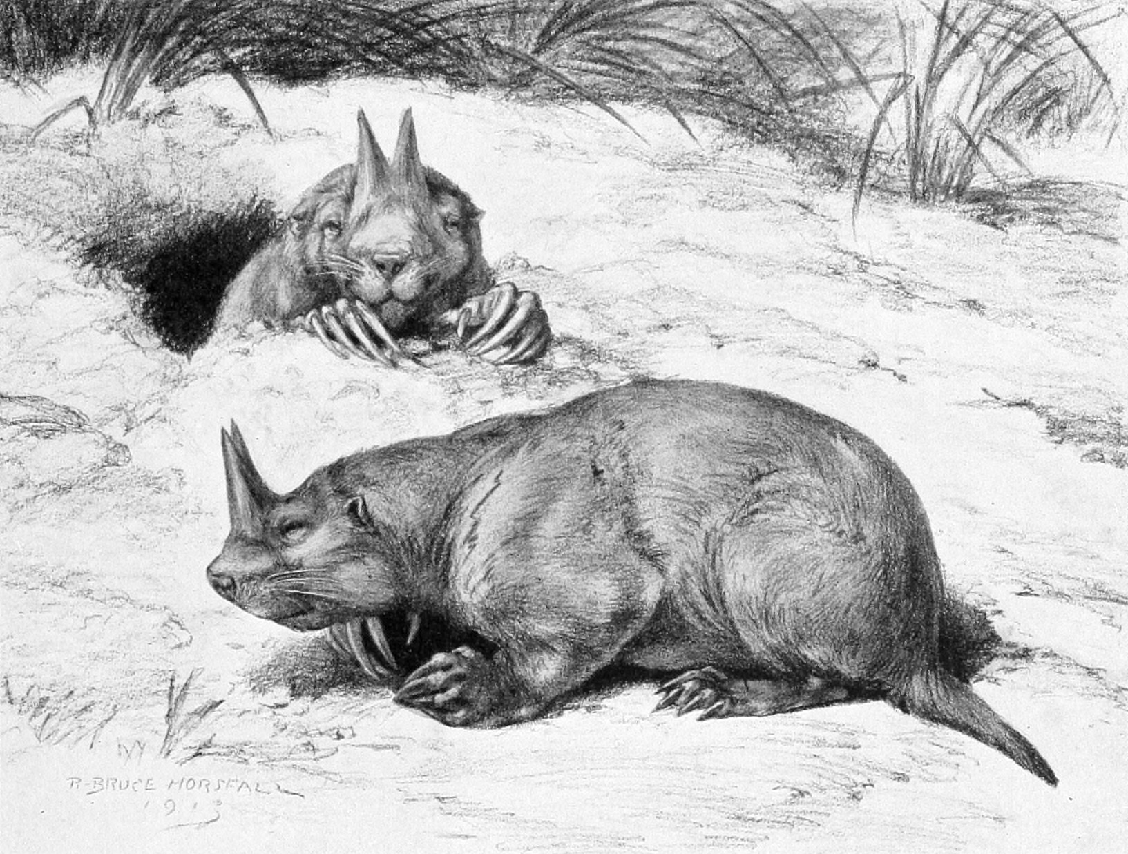 Ceratogaulus hatcheri (jr synonym = Epigaulus hatcheri), "horned gophers".